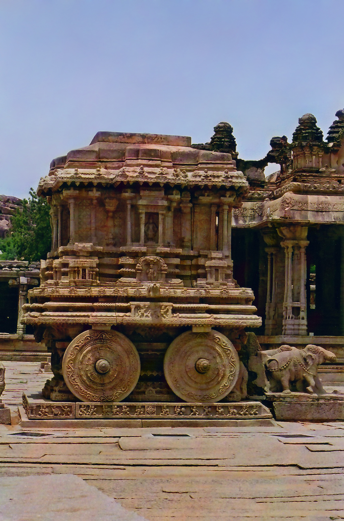 At Vitthala temple in Hampi, Karnataka state, India